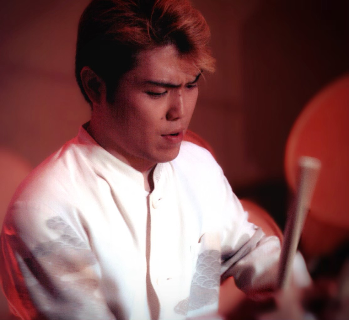 “SUPER WADAIKO” HIROKI MIKI Tokyo, Chiyoda-ku, Imperial Hotel special stage